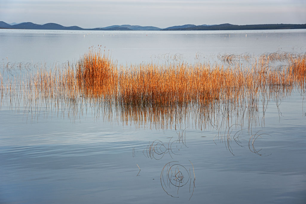 Lake Vrana, ornitological parc